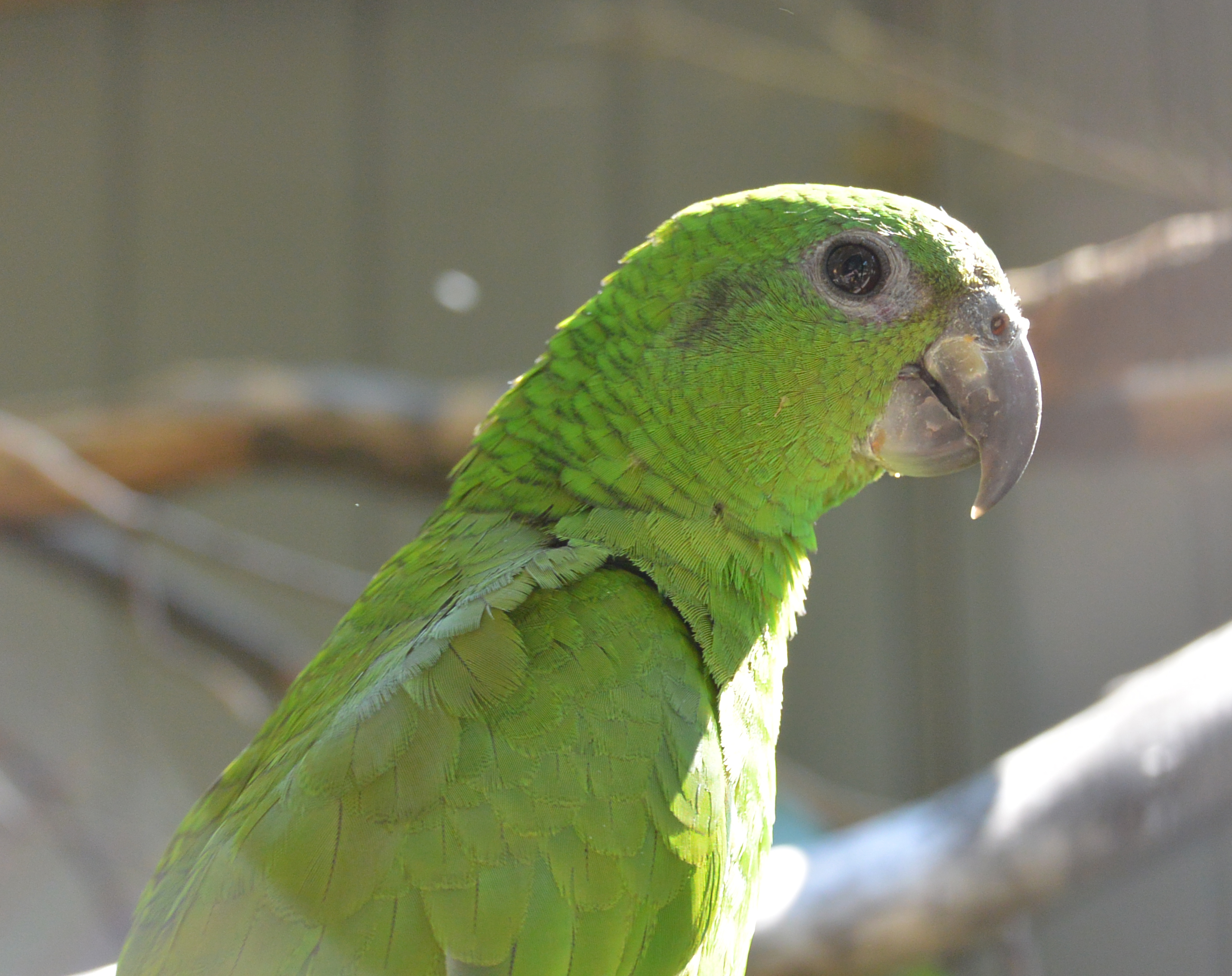 A Black-billed Amazon at Vienna Zoo, Schonbrunn Palace, Vienna, Austria.